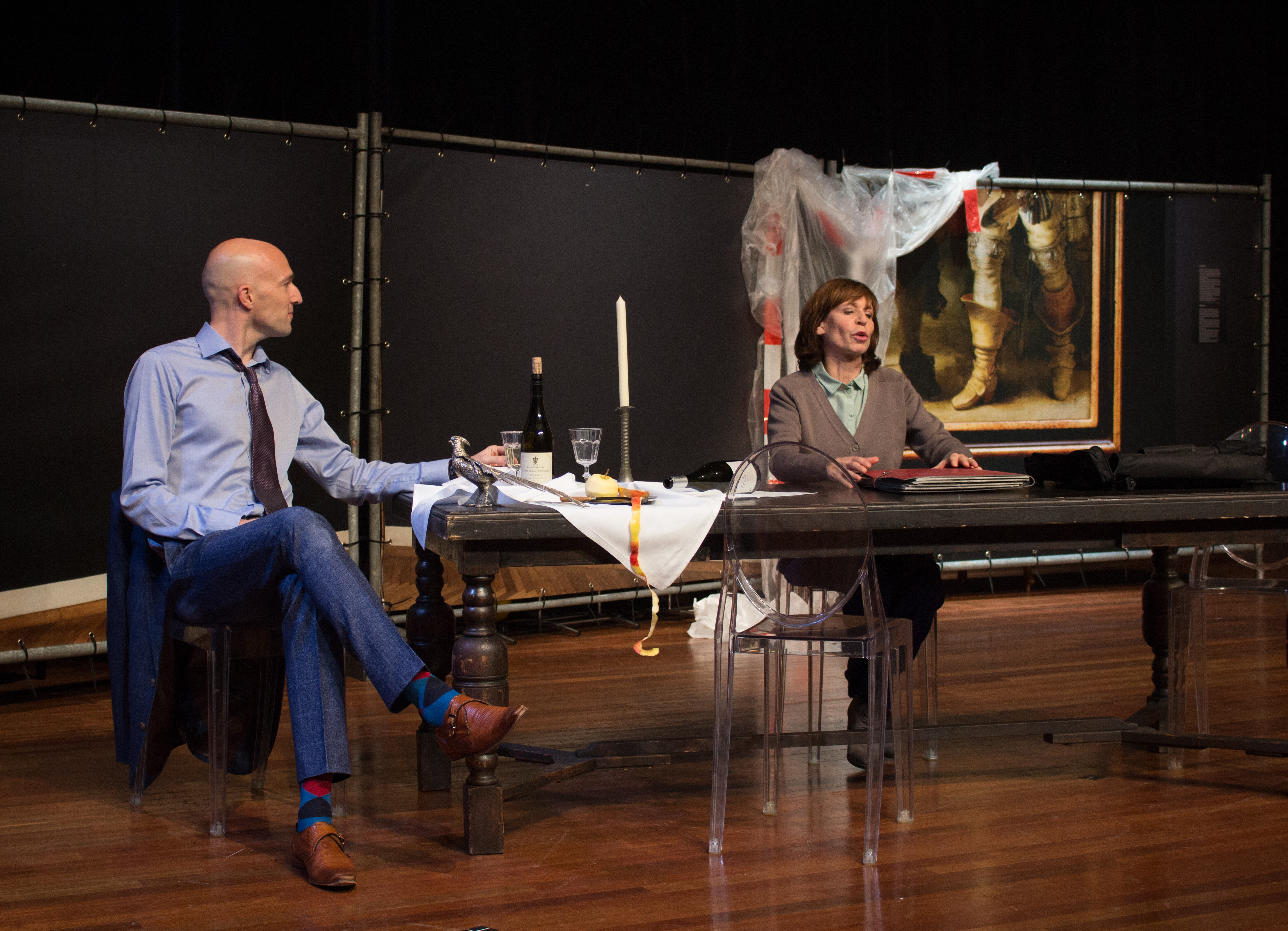 mugmetdegoudentand at Brainwash Festivaal 2015